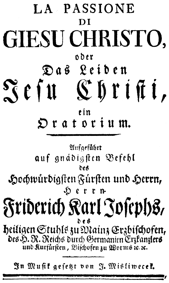 Josef Mysliveček - La passione - titlepage of the libretto - Mainz 1784